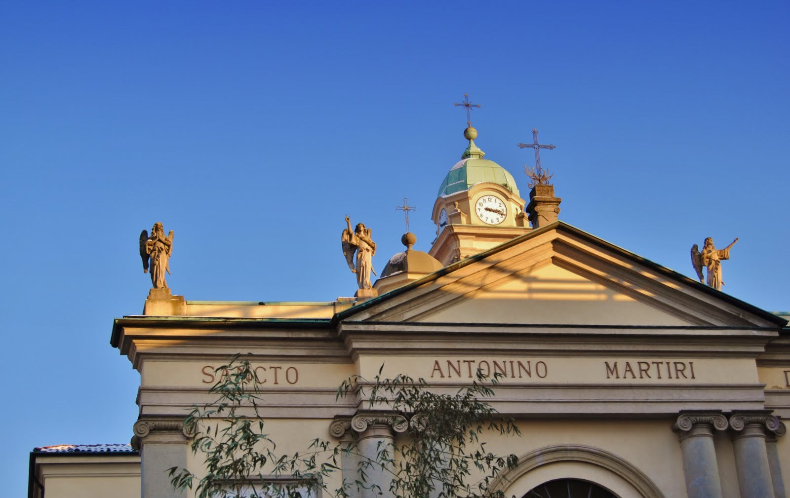 Nova milanese sant'antonino martire